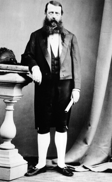 Guillem d'Areny-Plandolit, Andorran nobleman and politician who led the Andorran New Reform